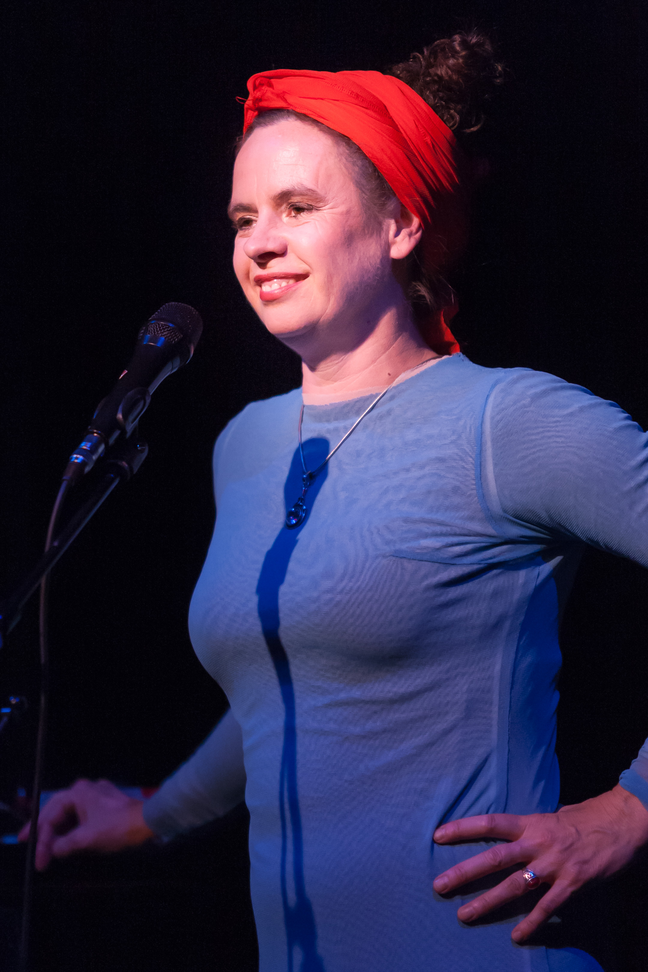 The German diseuse Nessi Tausendschön at cabaret club and theatre Senftöpfchen, Cologne